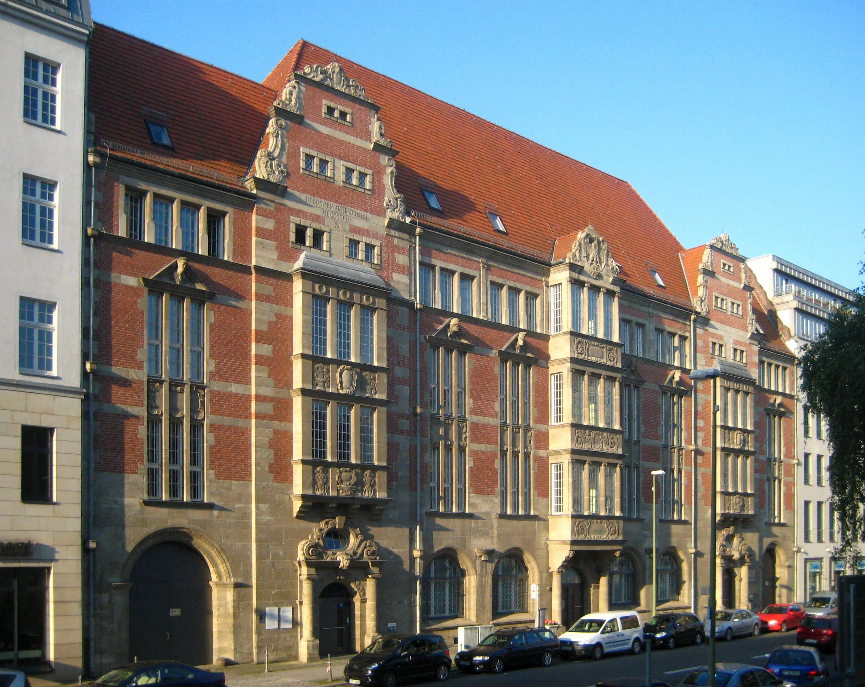 The former imperial post office W 8 at Französische Straße No. 9-12 in Berlin-Mitte. It was built 1908 to 1912 by Postal Building Commissioner Ludwig Meyer to a design by Building Councillor Wilhelm Walter. The facade of red brick and shell limestone shows elements of Neo-Renaissance and Neo-Baroque architecture, typical for the conservative architecture of representative postal buildings of the imperial era. In comparison, the interior of the building has a modern room layout, centered around the service area in the atrium. The window pediments of the facade show busts of men wearing traditional postal uniforms. The building is now used by serveral attorney's offices, real estate management agencies, the Berlin branch of the banking house BHF and the German Tax Payers' League, which has placed a debt clock at the front. The building has been designated a historic landmark.